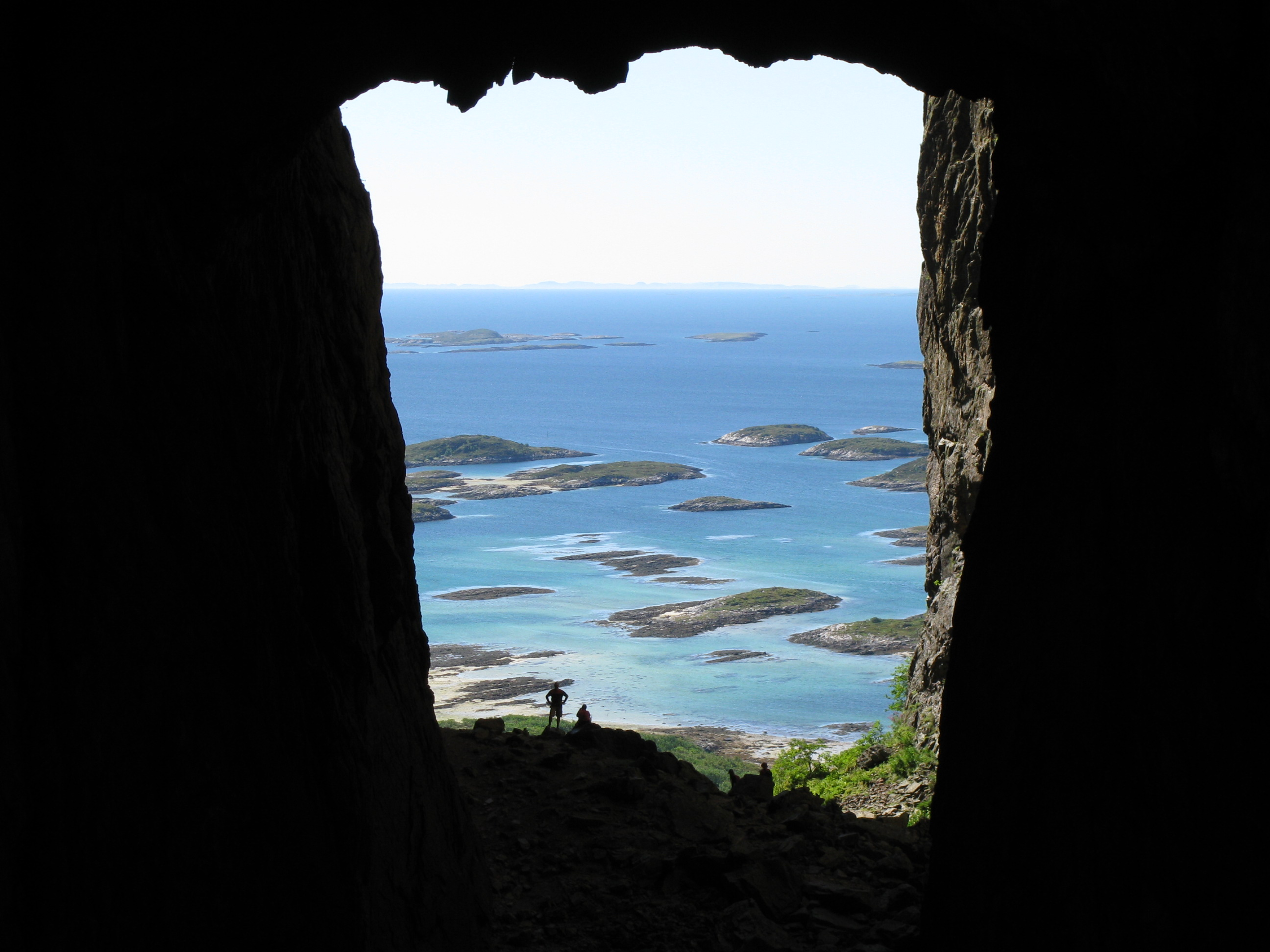 The large hole in mount Torghatten, Brønnøy municipality, Nordland, Norway. No: Det store hullet i Torghatten, Brønnøy.